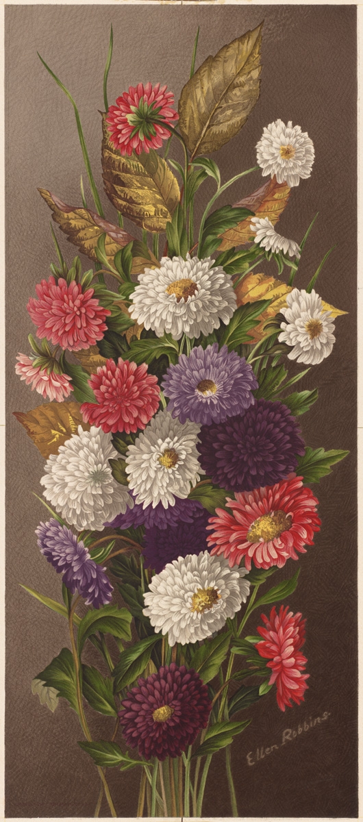 File name: 07_11_000618 Title: Asters Creator/Contributor: Robbins, Ellen, 1828-1905 (artist); L. Prang & Co. (publisher) Date issued: Copyright date: 1878 Physical description note: Proof print Genre: Chromolithographs; Still life prints; Proofs Location: Boston Public Library, Print Department Rights: No known restrictions Flickr data on 2011-08-07: Camera: Sinar AG Sinarback 54 FW, Sinar m License: CC BY 2.0 User: Boston Public Library BPL